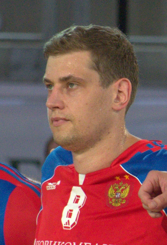 Egor Evdokimov 2013